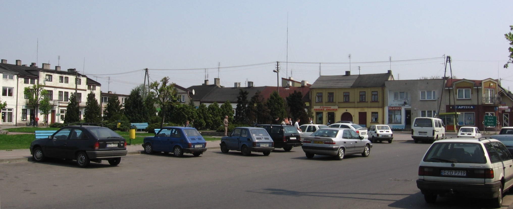 the market place in town Szadek in central Poland(33 km south-west from Łódź)